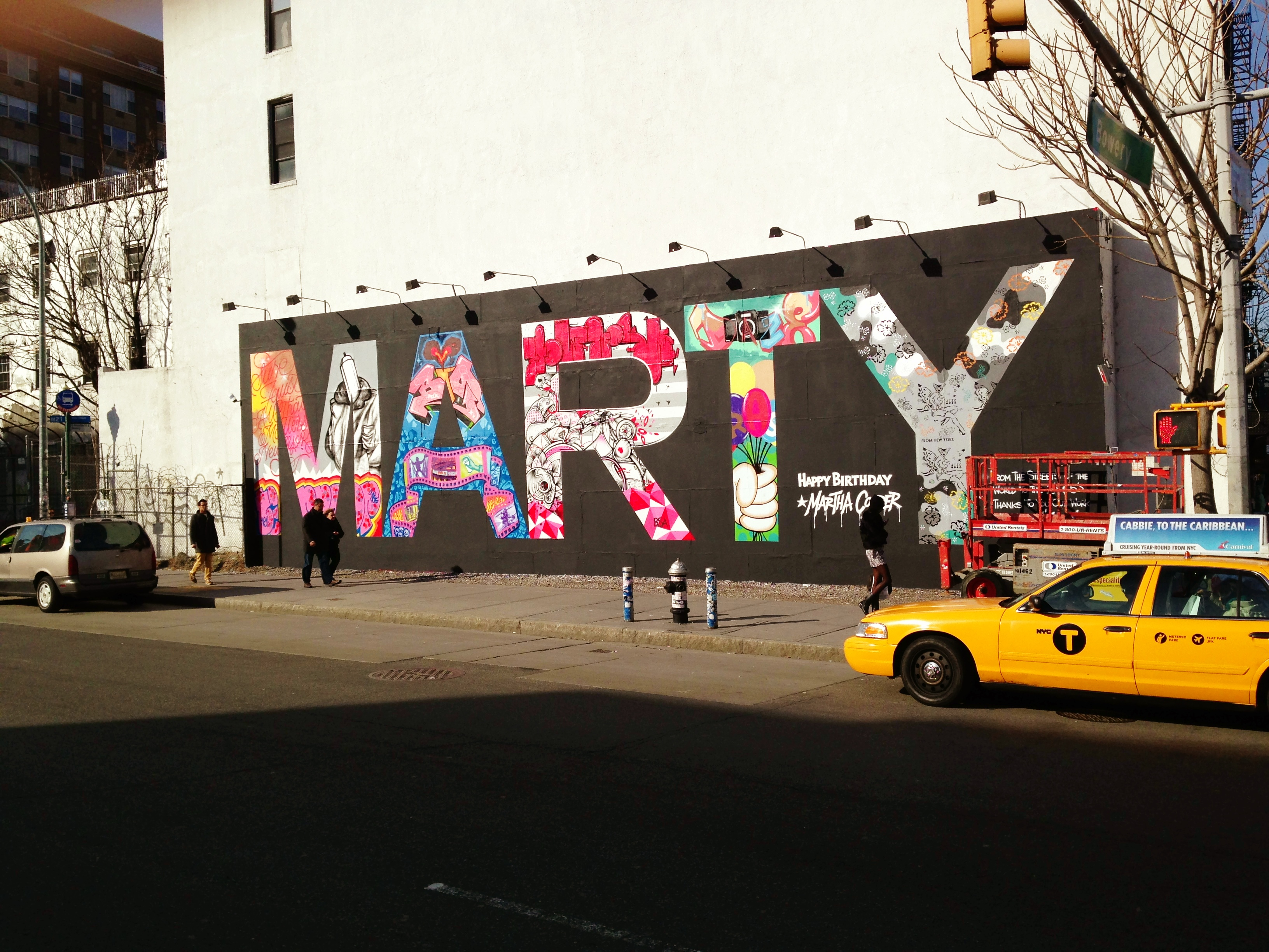 A tribute on East Houston in New York to photojournalist Martha Cooper, created by multiple graffiti artists in honor of her birthday.